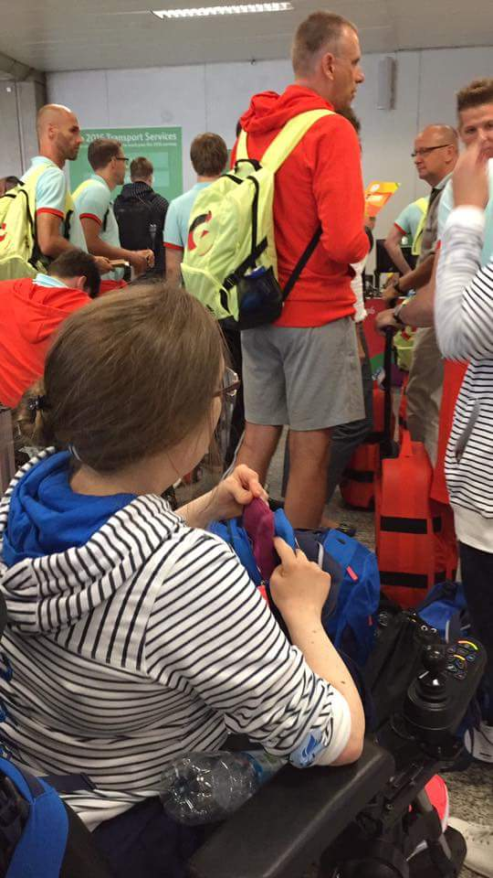 Photo taken in Rio ahead of the Paralympic Games.